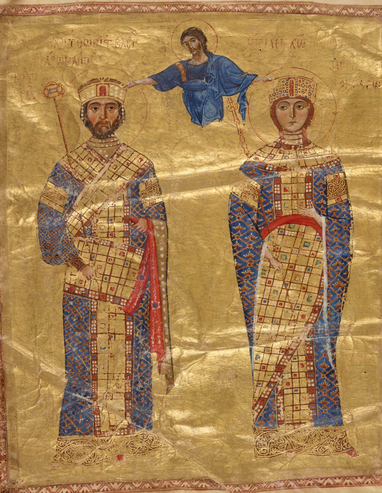 The Byzantine emperor Nicephorus III (or Michael VII Doukas) and Maria of Alania.